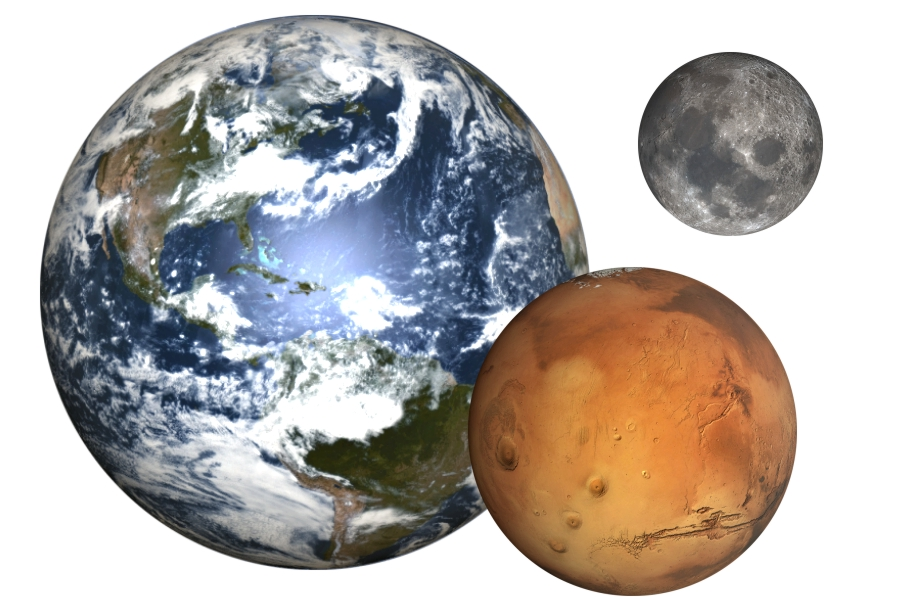 Earth moon mars composition